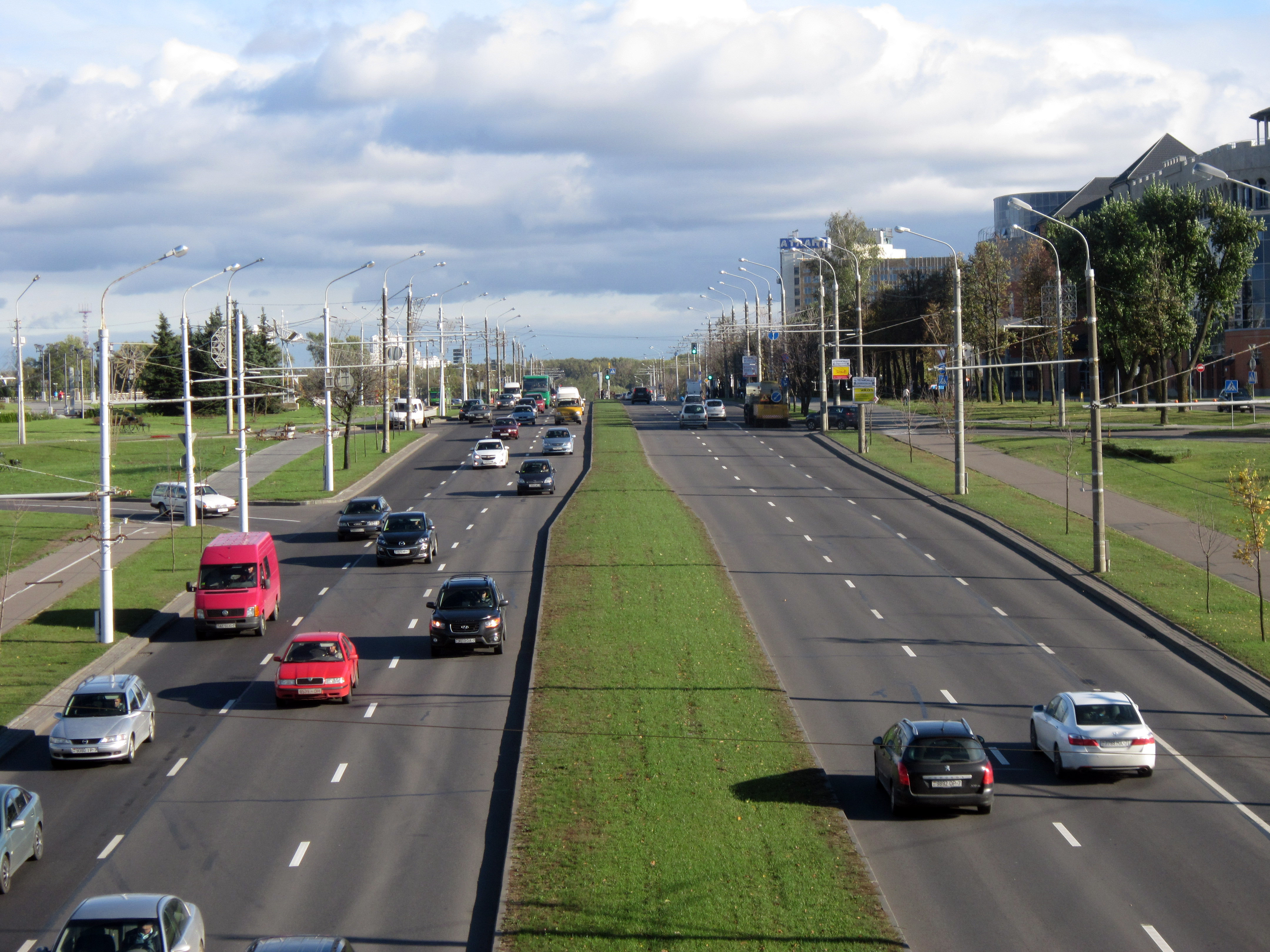 Avenue of Victors in Minsk, Belarus.